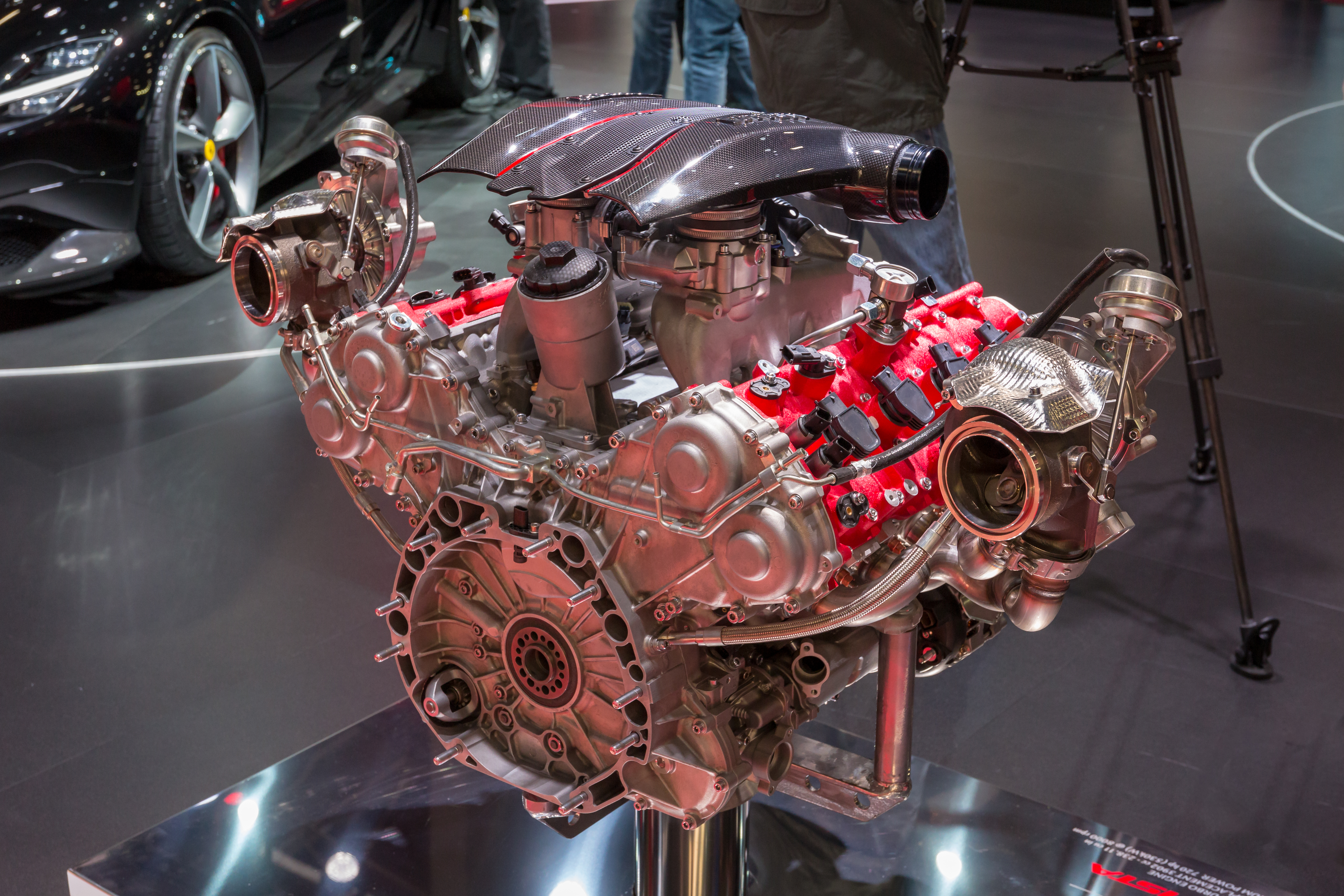 Ferrari F154 CD engine, Mondiale Paris Motor Show 2018